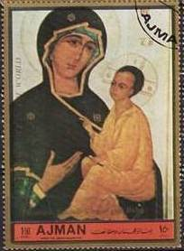 Stamp of Ajman. Moscow School paintings of Saints. Theotokos of Tikhvin